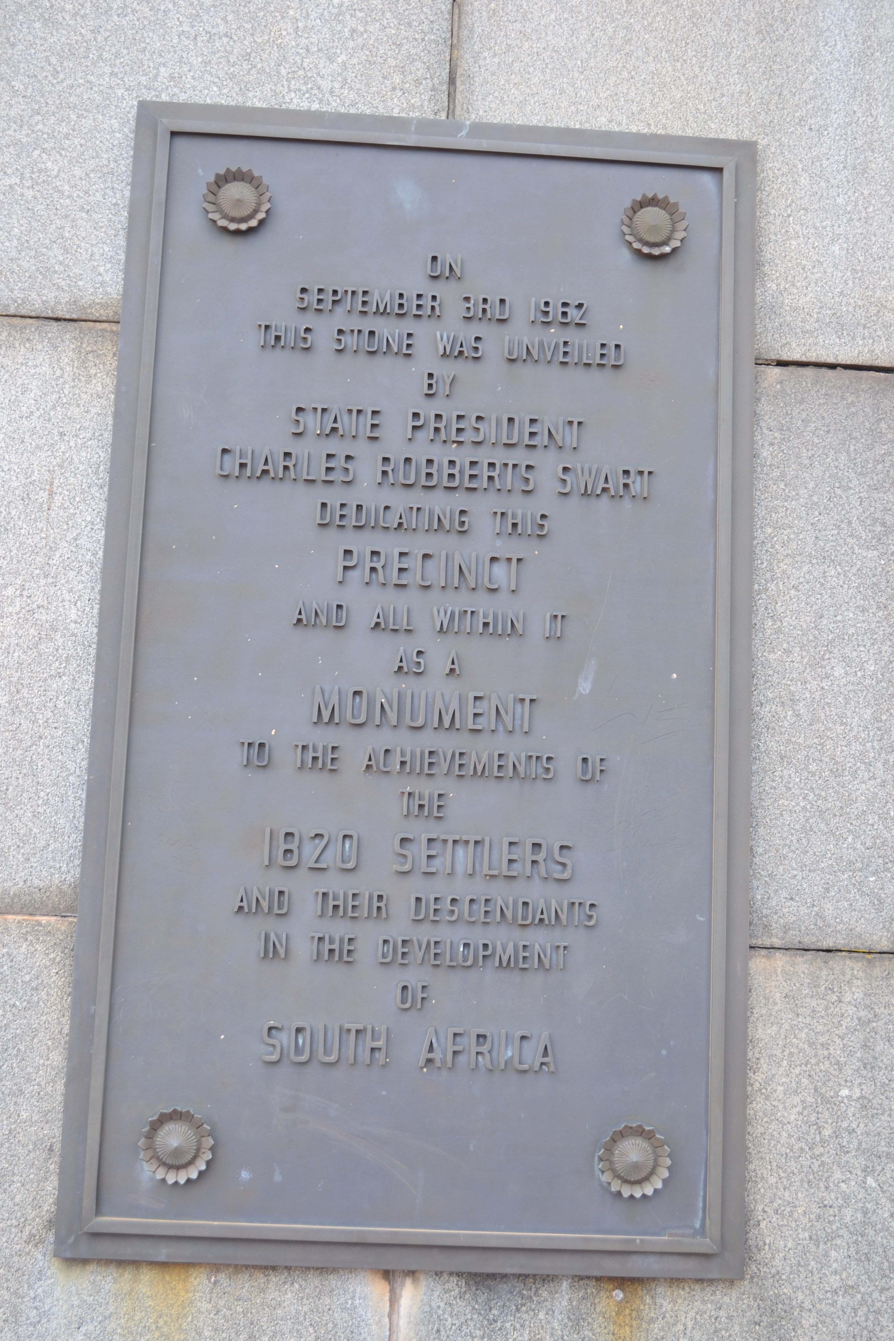 Erected to the achievement of the 1820 Settlers and their descendants in the development of South Africa. Grahamstown, Eastern Cape.